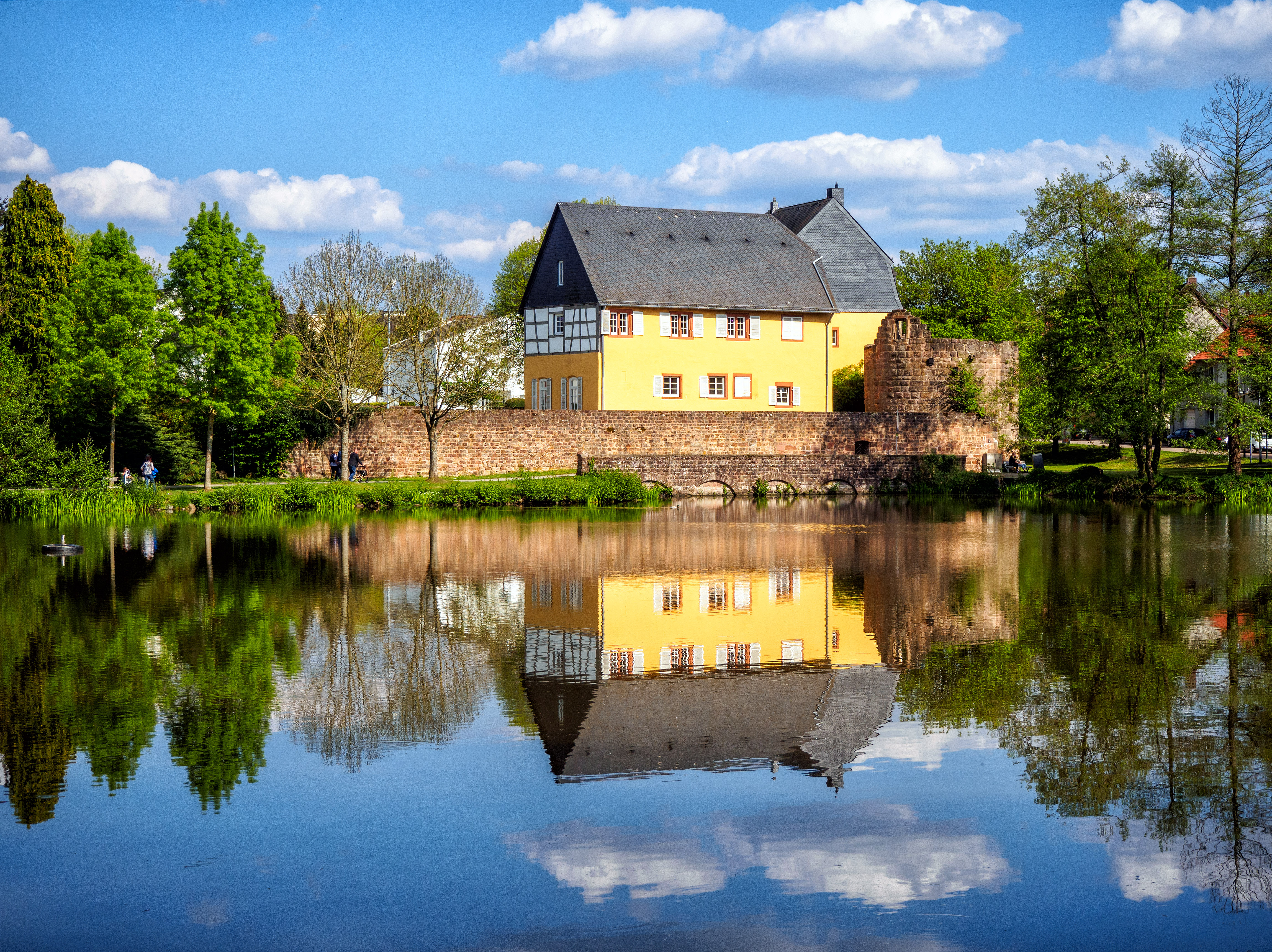 Castle Gustavsburg in Homburg-Jägersburg, seen from the Castle lake